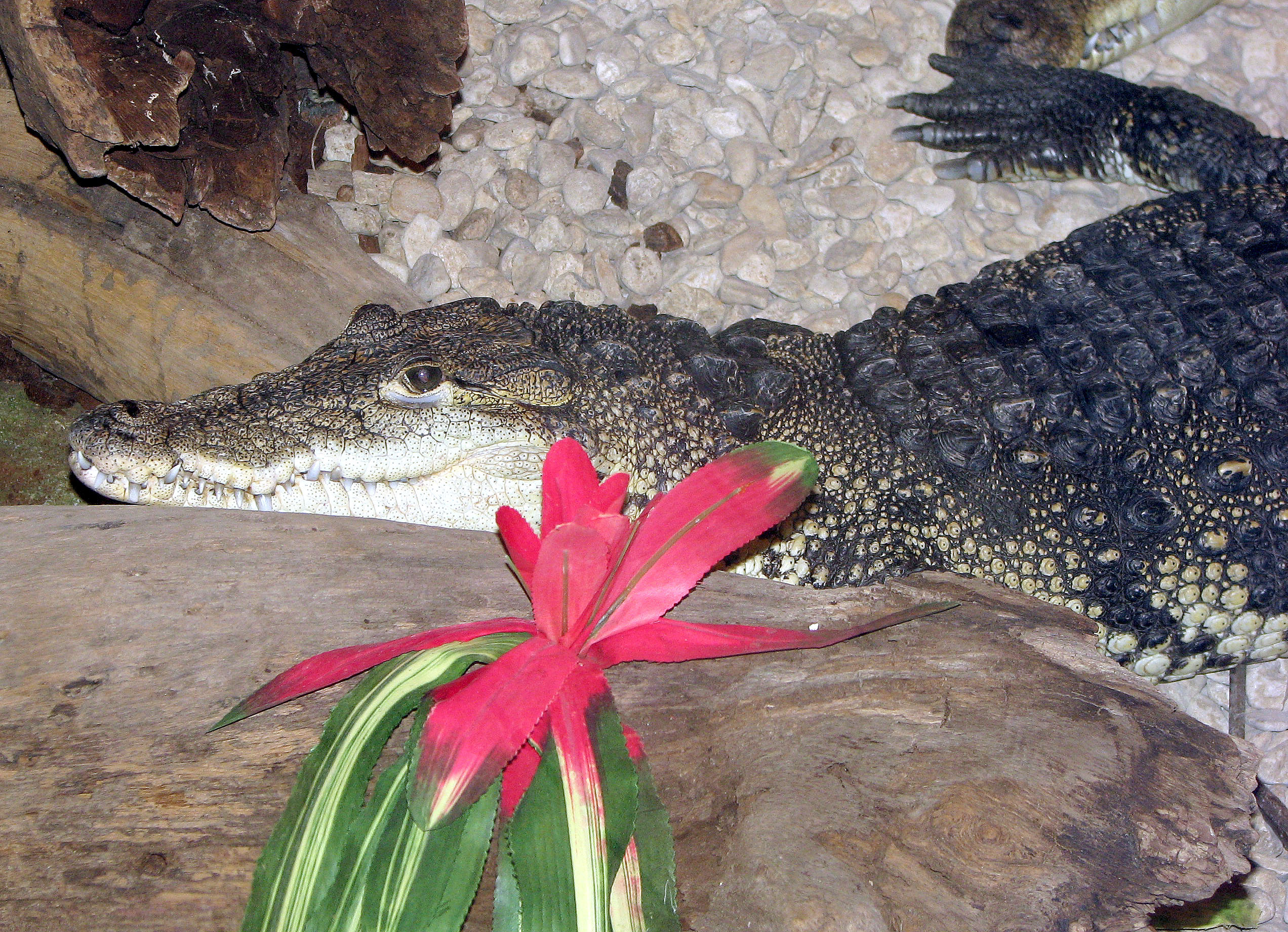 Morelet’s Crocodile Crocodylus moreletii at the Cotswold Wildlife park, Oxfordshire, England. Photographed by Adrian Pingstone in June 2006 and placed in the public domain.